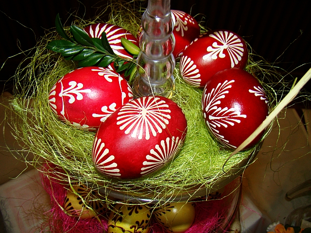 Easter exhibition in Nowotaniec